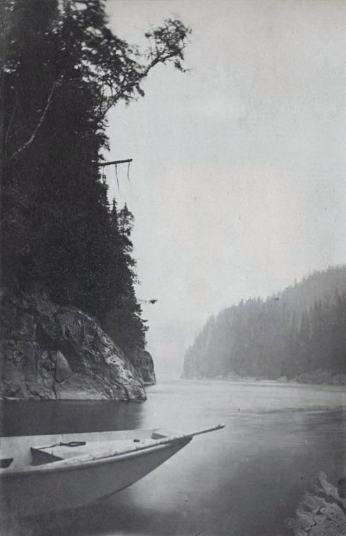 Photograph, Moisie River, QC, about 1880, Silver salts on paper mounted on card - Albumen process - 15.1 x 9.9 cm